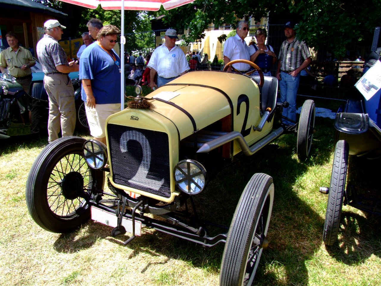 Ford T Racer 1917